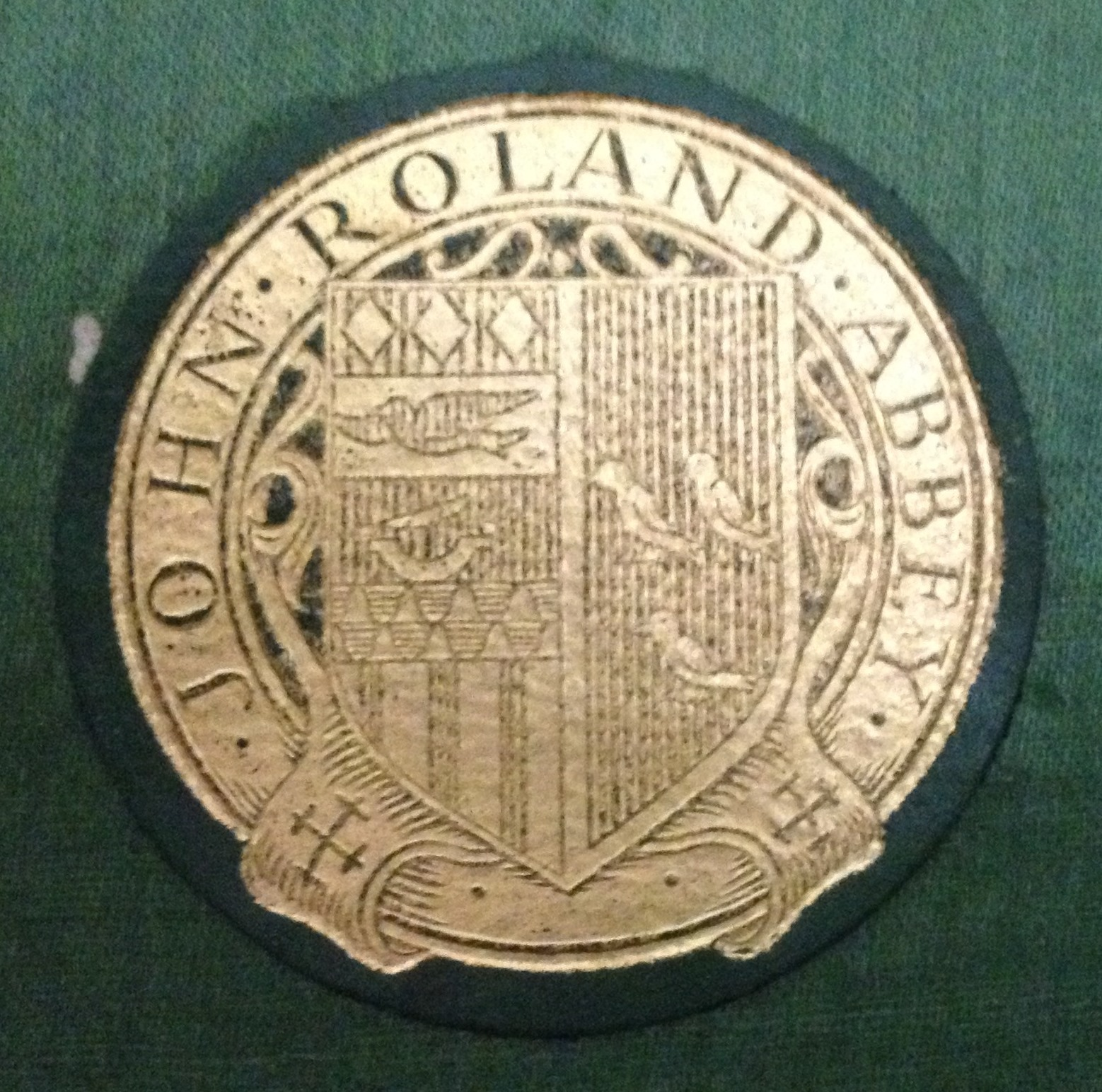 John Ronald Abbey bookplate